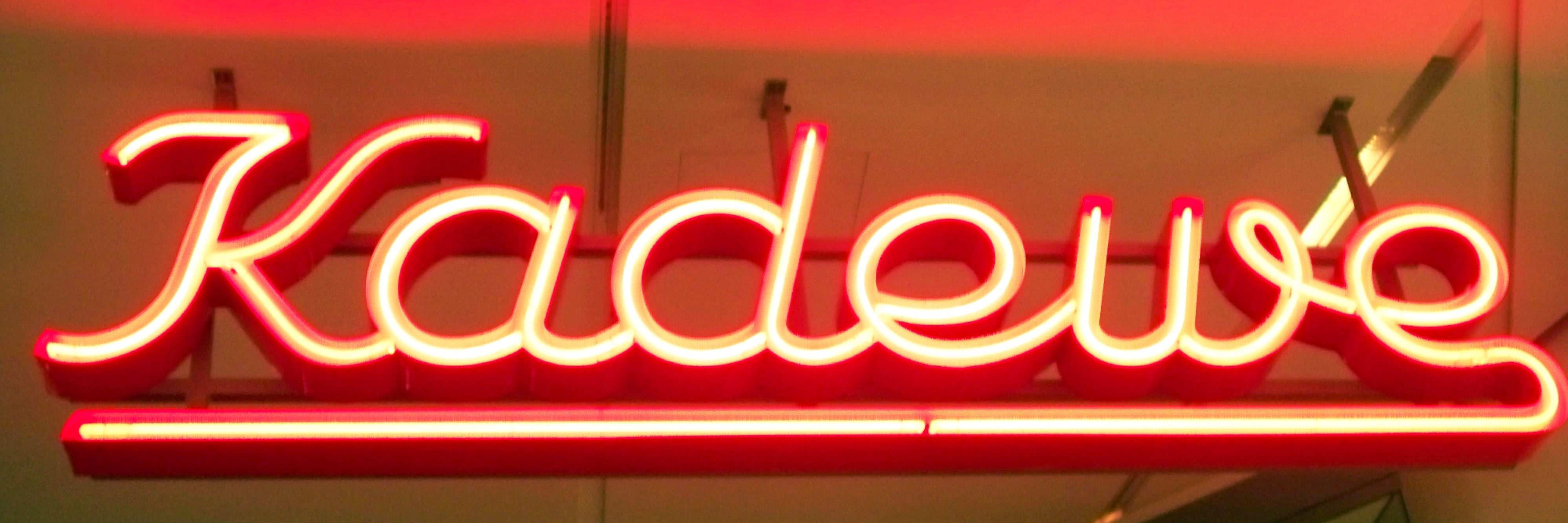 Kaufhaus des Westens department store of Berlin, Germany first neon sign, since 1927. Now on display at the Jewish Museum Berlin in Berlin.